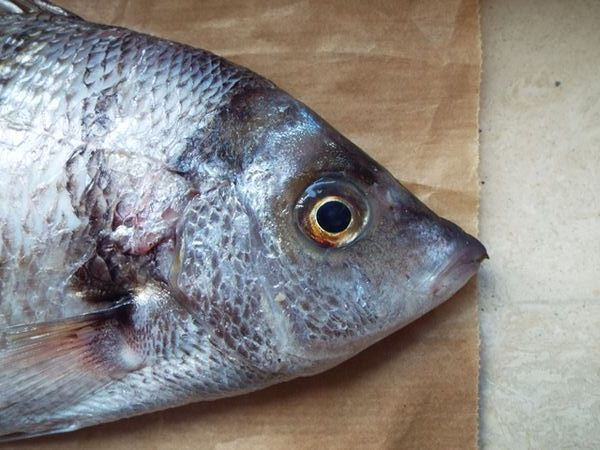 Diplodus puntazzo collected in Northern Tyrrhenian sea (Italy).